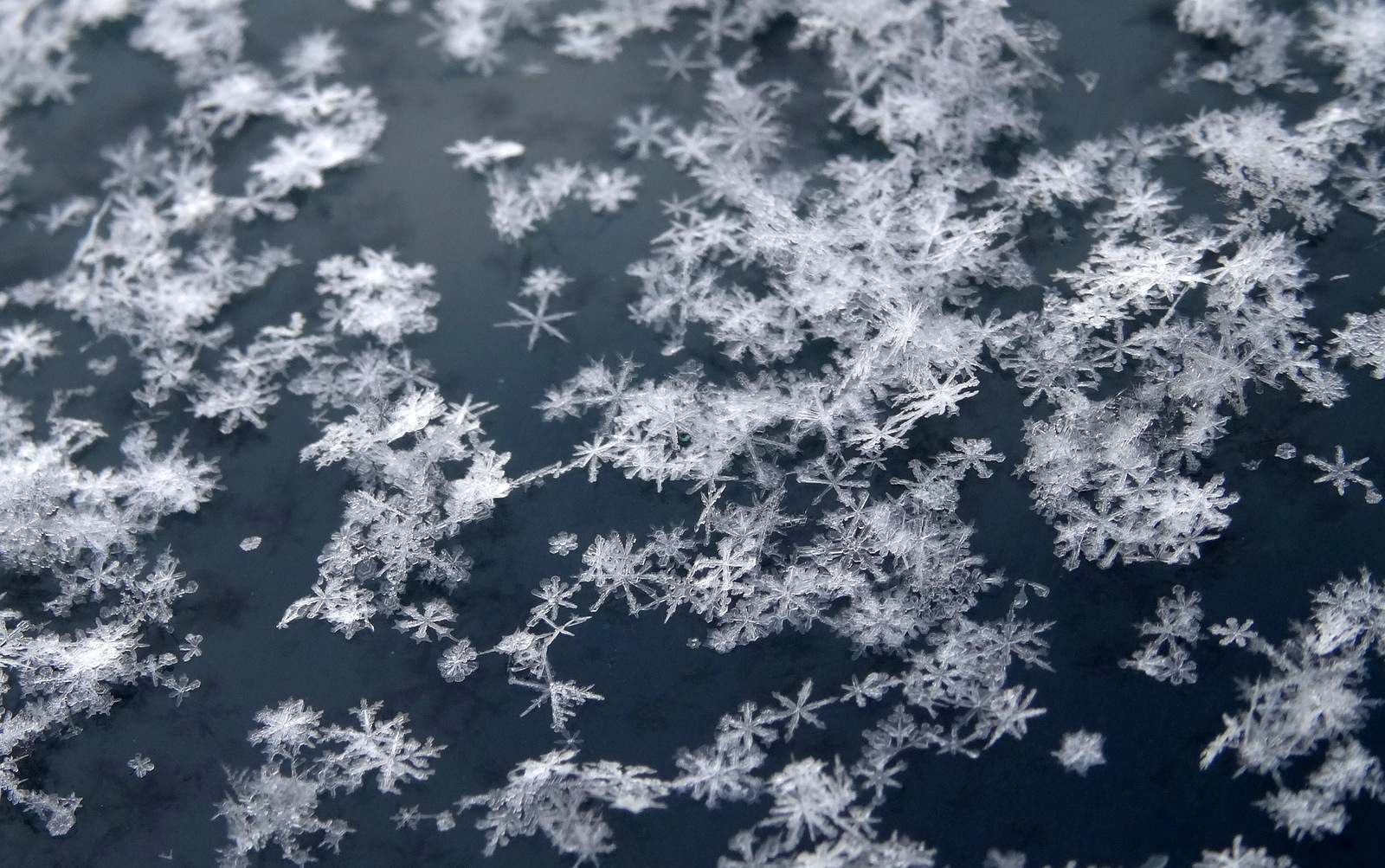 Snowflakes on windshield.